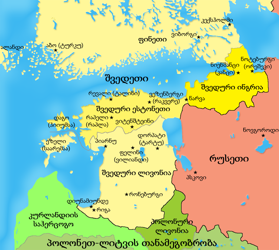 The Baltic provinces of the Swedish Empire in the 17th century, with Georgian country names and place names that were used at the time.